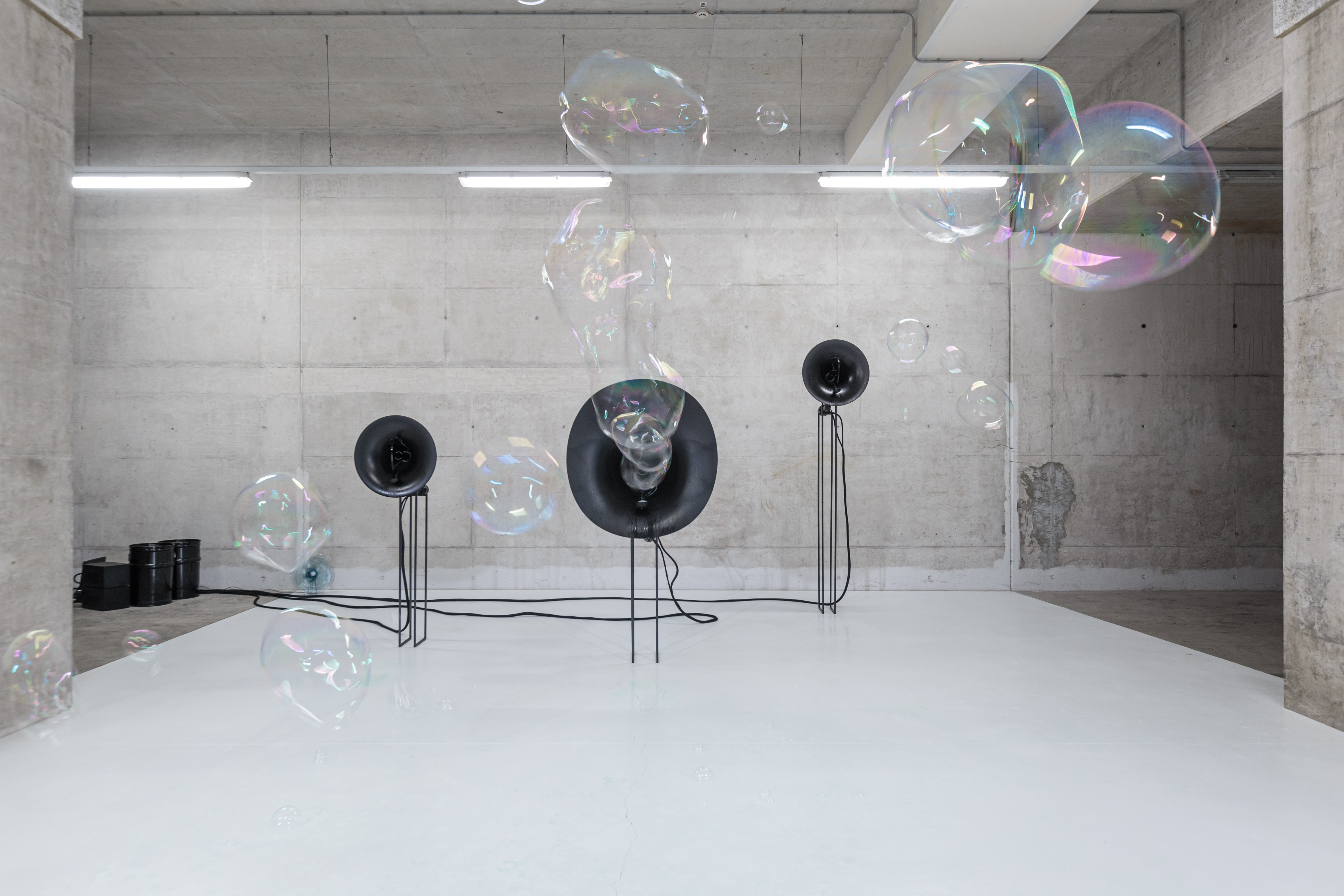 Installation View of the installation "Black Hole Horizon" by artist Thom Kubli at Ars Electronica Festival 2016 in Linz, Austria.